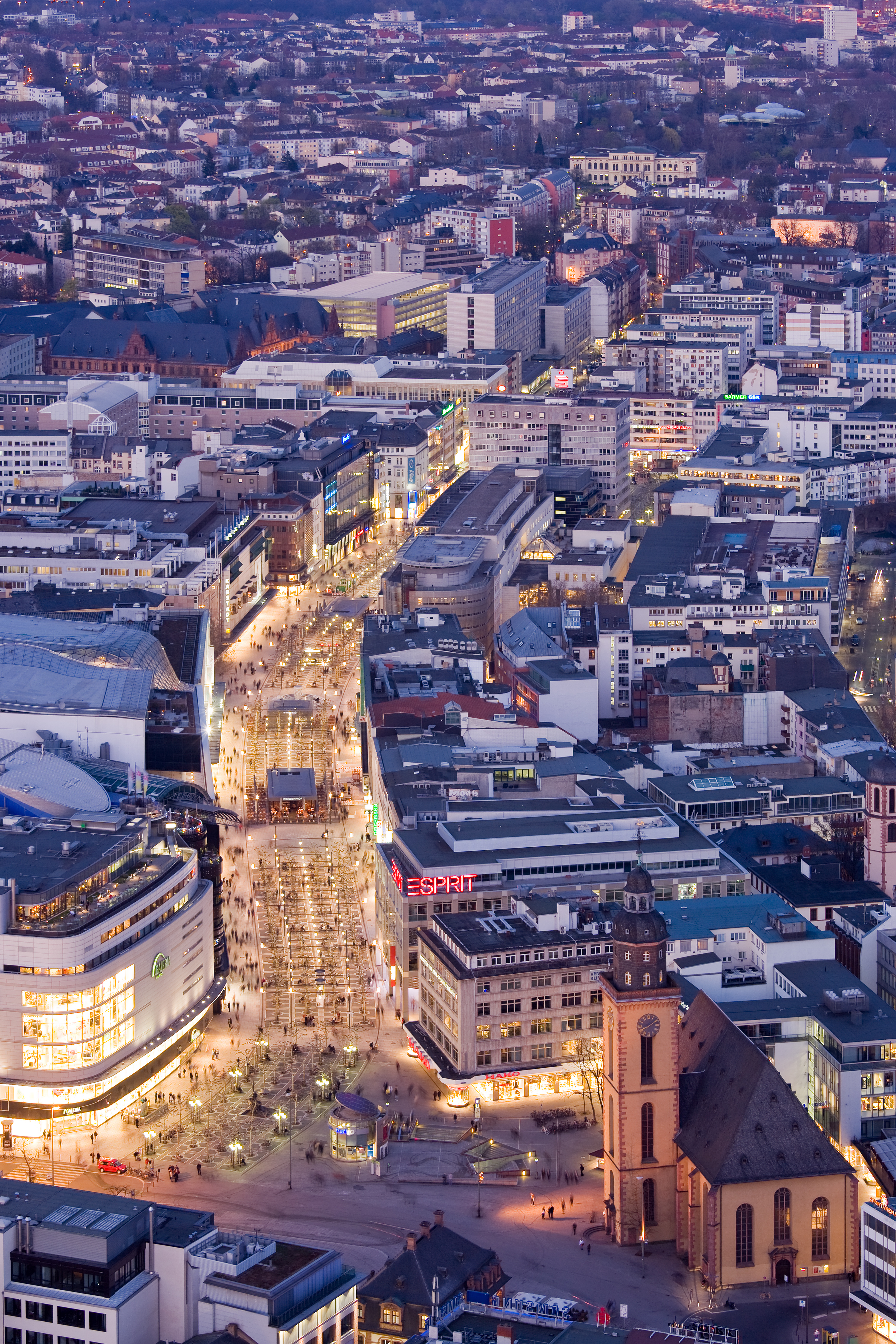 Frankfurt on the Main: Zeil as seen from the Maintower in the early evening